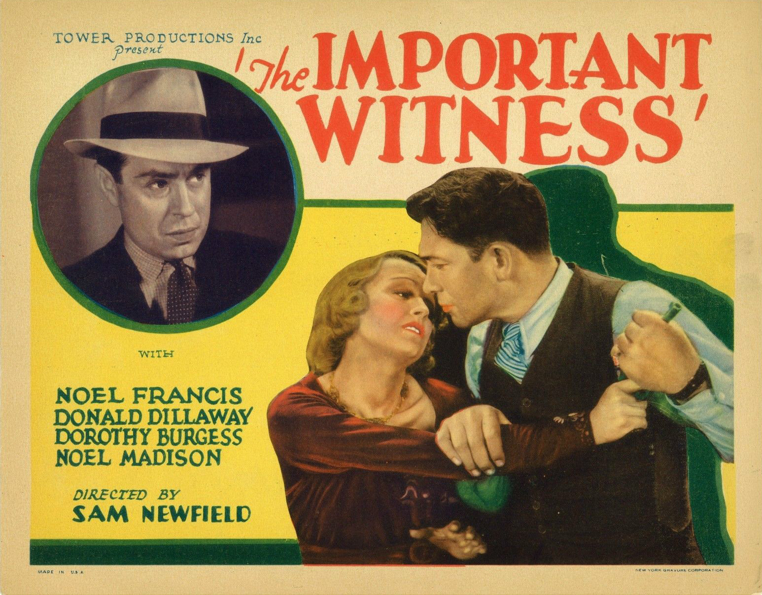 Lobby card for the 1933 film The Important Witness.